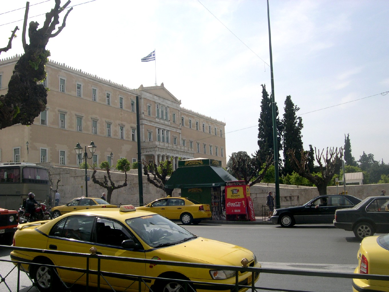 The Greek Parliament in Syntagma Square, Athens, Greece. Photo taken in 2006.